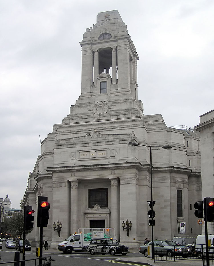 Freemasons’ Hall in Great Queen Street, London, England. The Hall is the headquarters of the United Grand Lodge of England and a meeting place for the Lodges in the London area. The art deco building was built between 1927 and 1933 as a memorial to the 3225 Freemasons who died on active service in the First World War. Initially known as the Masonic Peace Memorial, the name was changed to Freemasons' Hall at the outbreak of the Second World War in 1939.